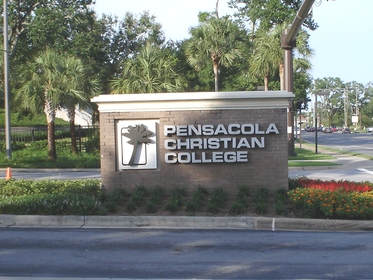 Released into the public domain by the photographer, blankfaze.